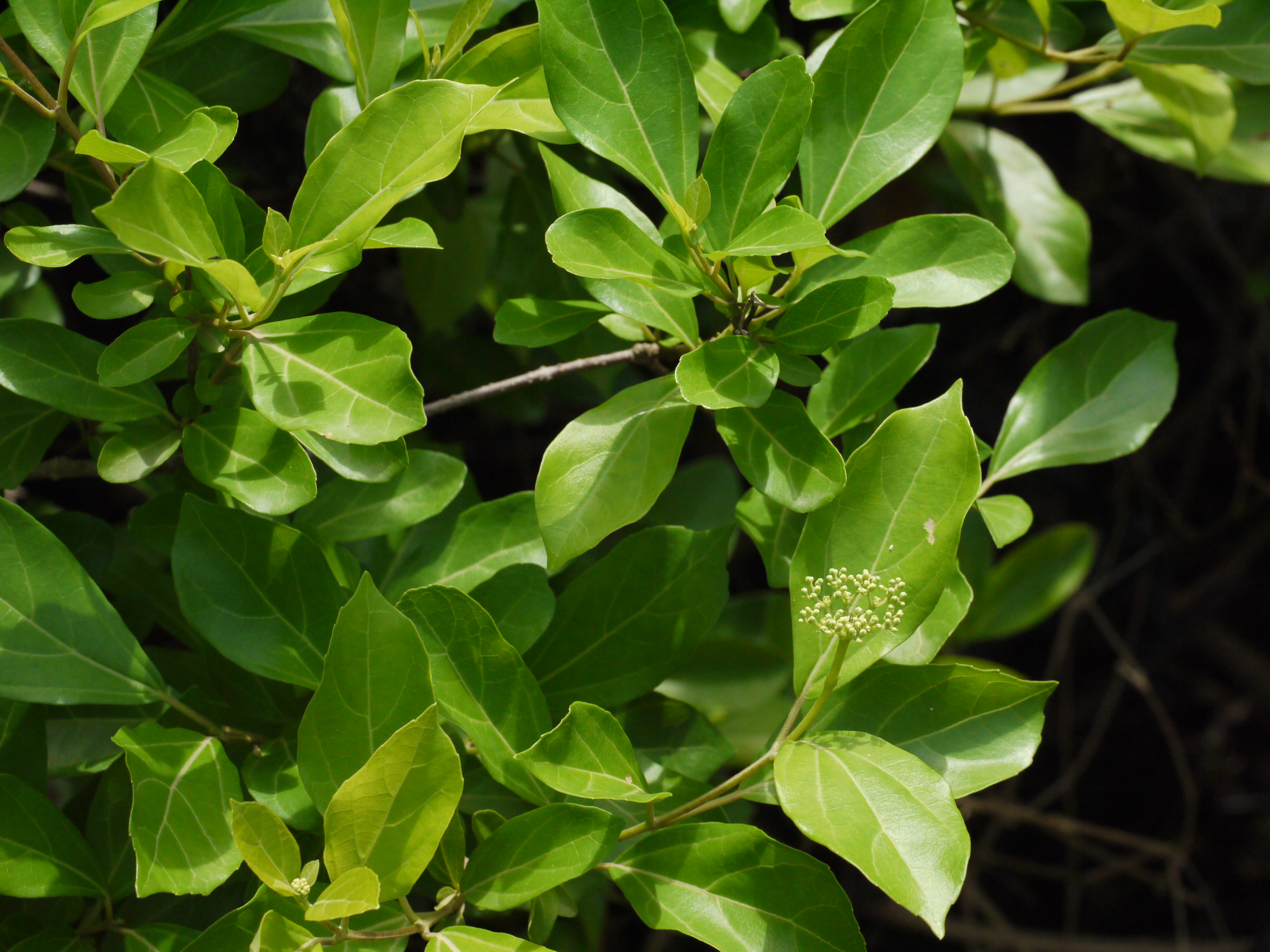 Verbenaceae (verbena, or vervain family) » Premna serratifolia L. PREM-na -- from the Greek premnon (stump of a tree), referring to the dwarf stature of one species ser-at-ih-FOH-lee-uh -- margins of foliage are toothed like a saw commonly known as: headache tree, spinous fire brand teak • Bengali: ganiari • Gujarati: મોટી અરણી moti arani • Hindi: अरणी arani • Kannada: ಅಗ್ನಿಮನ್ಥ agnimantha • Malayalam: appel • Marathi: अरणि arani, रानटाकळी ranatakali • Sanskrit: अग्निमन्थ agni-mantha, अरणि arani • Tamil: பசுமுன்னை pacu-munnai, முன்னை munnai • Telugu: భైరవి bhairavi Native of: e & s tropical Africa, s China, e Asia, Bangladesh, India, Indo-China, Malesia, n Australia References: Flowers of India • NPGS / GRIN • ENVIS - FRLHT • DDSA